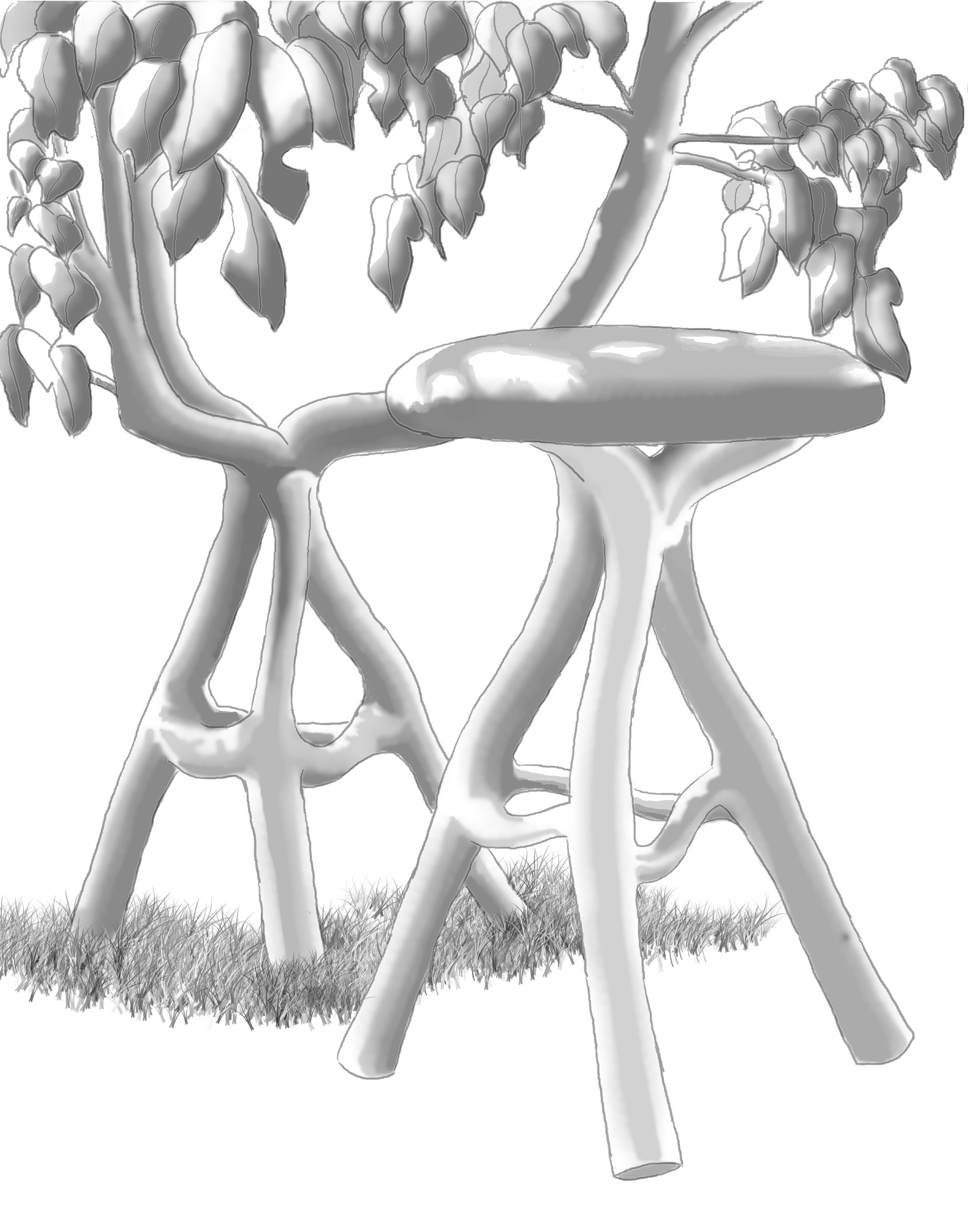 One of this stools is still growing and the other has been finished and is ready to use. These were grown by Grounup Furniture method of tree shaping. Which is a gradual tree shaping.